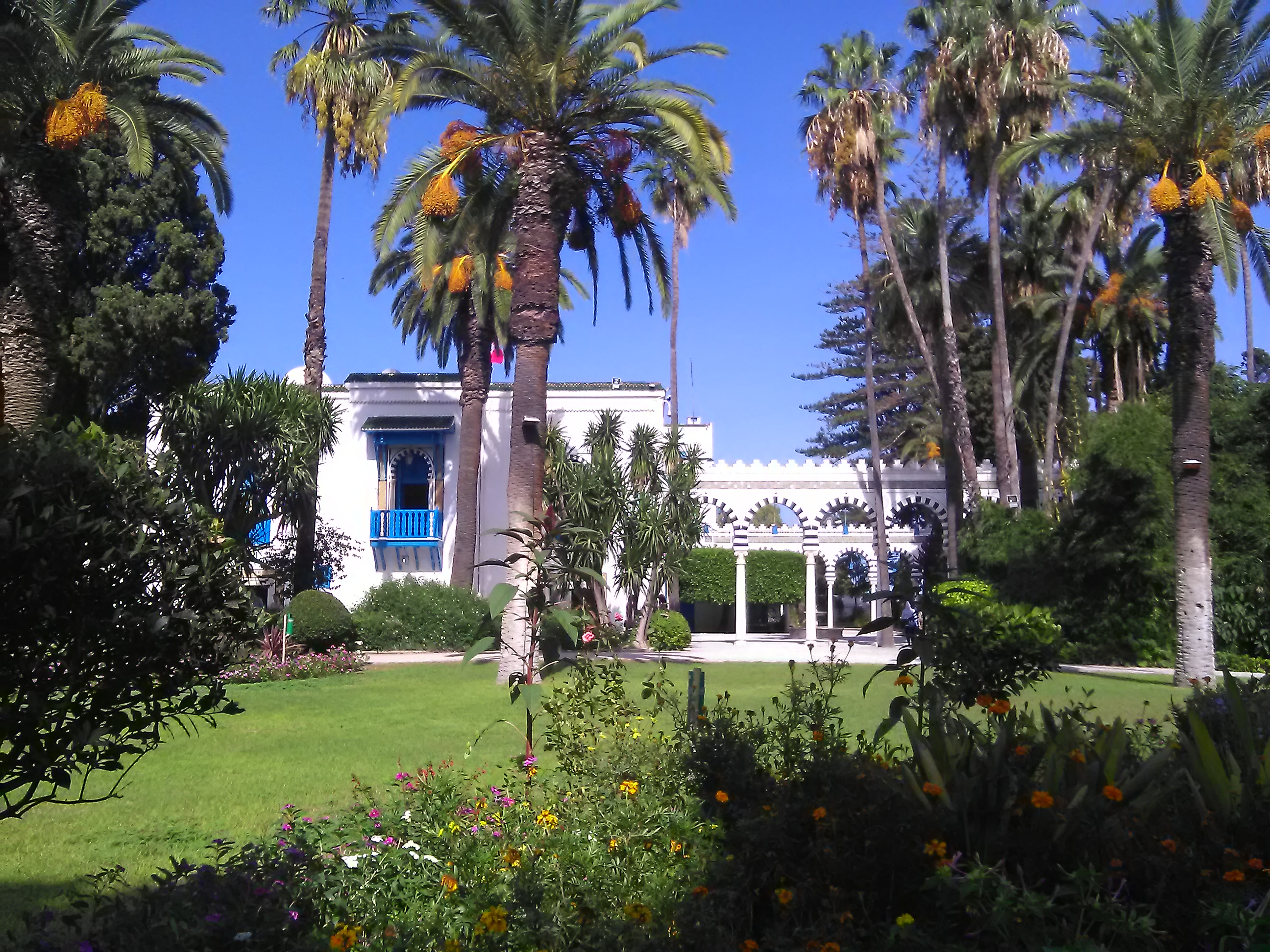 French ambassador's residence in Tunisia: Dar El Kamila